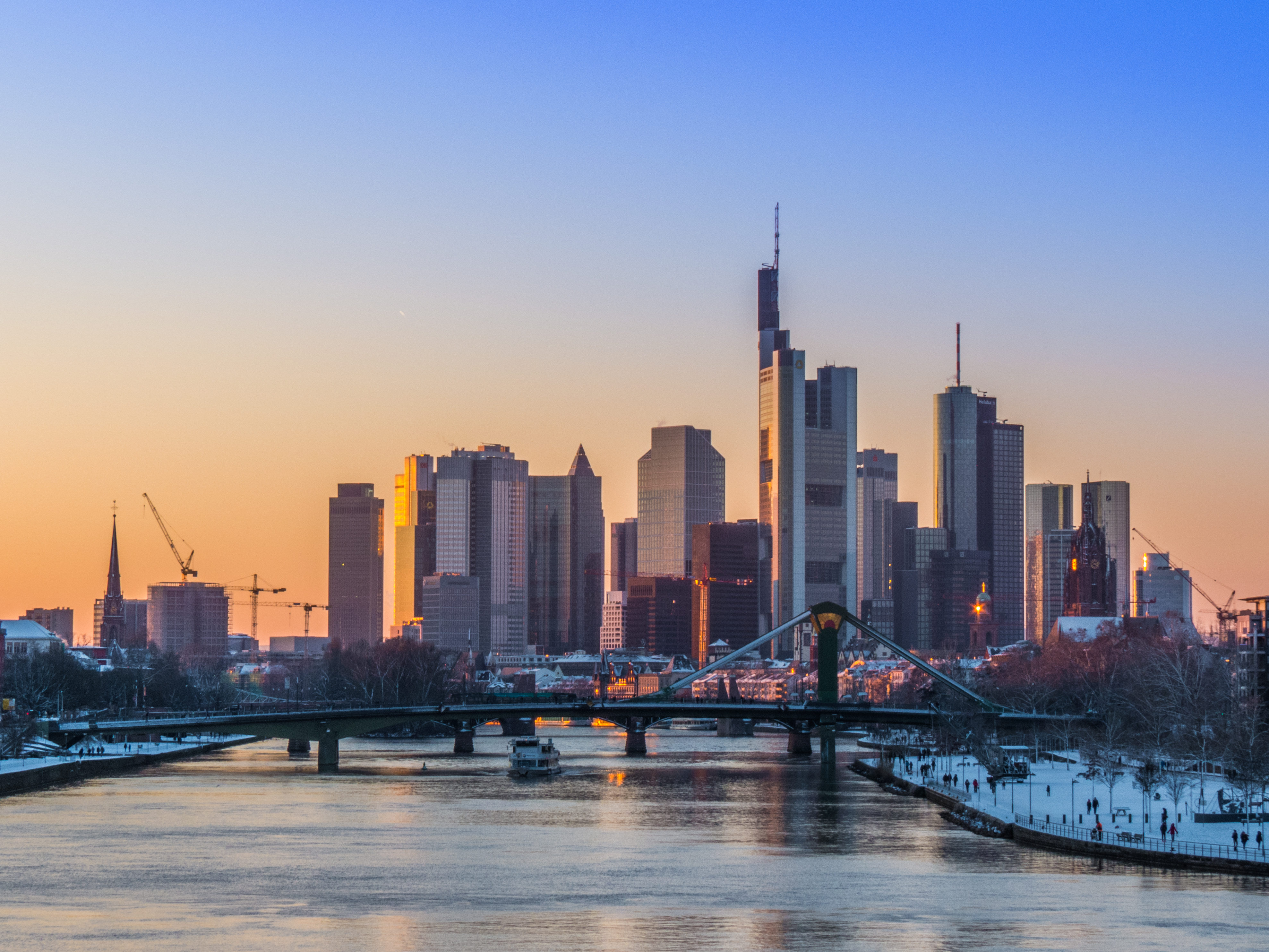 Frankfurt Skyline